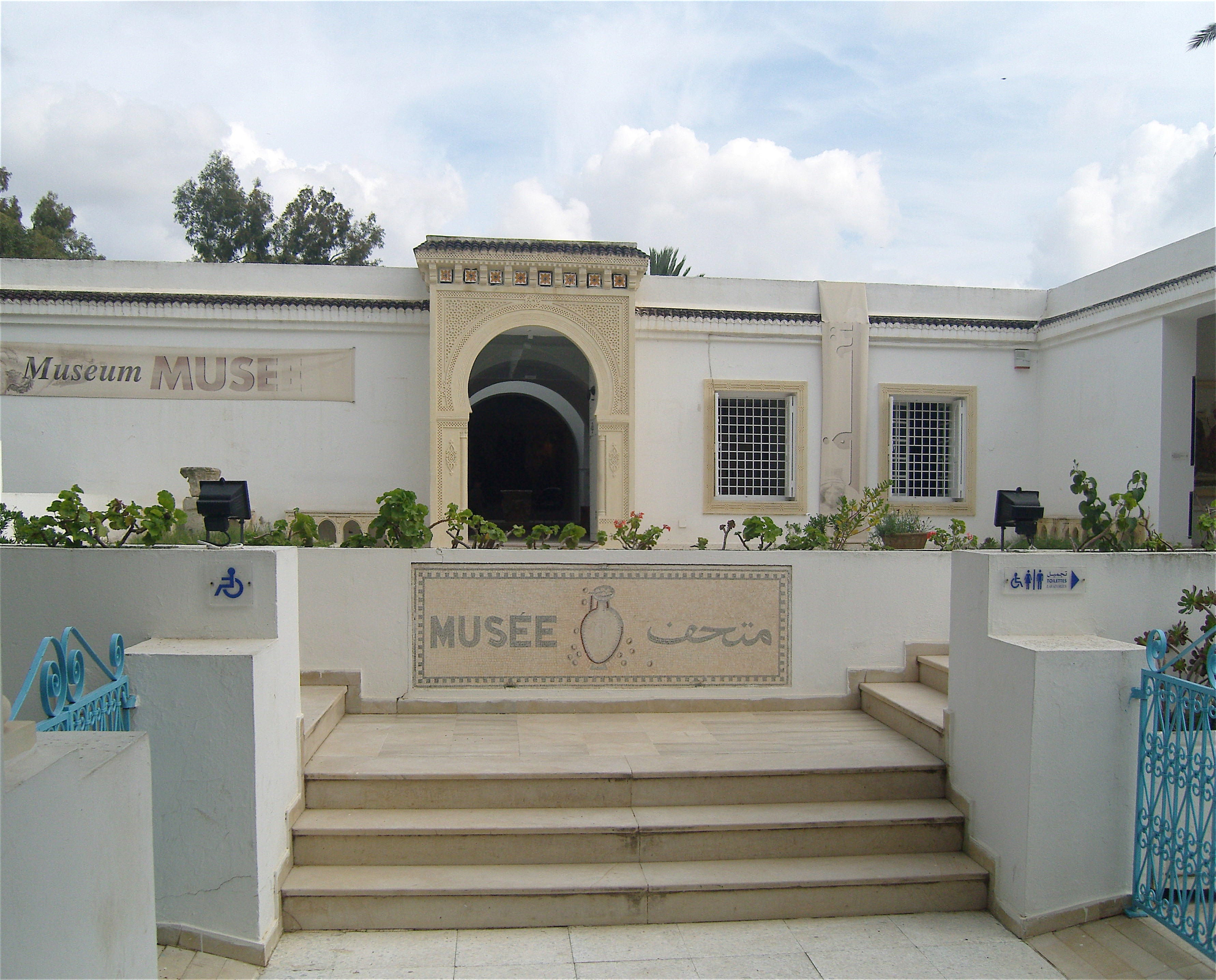 This Photo has been taken with a Samsung NV20 digital camera.